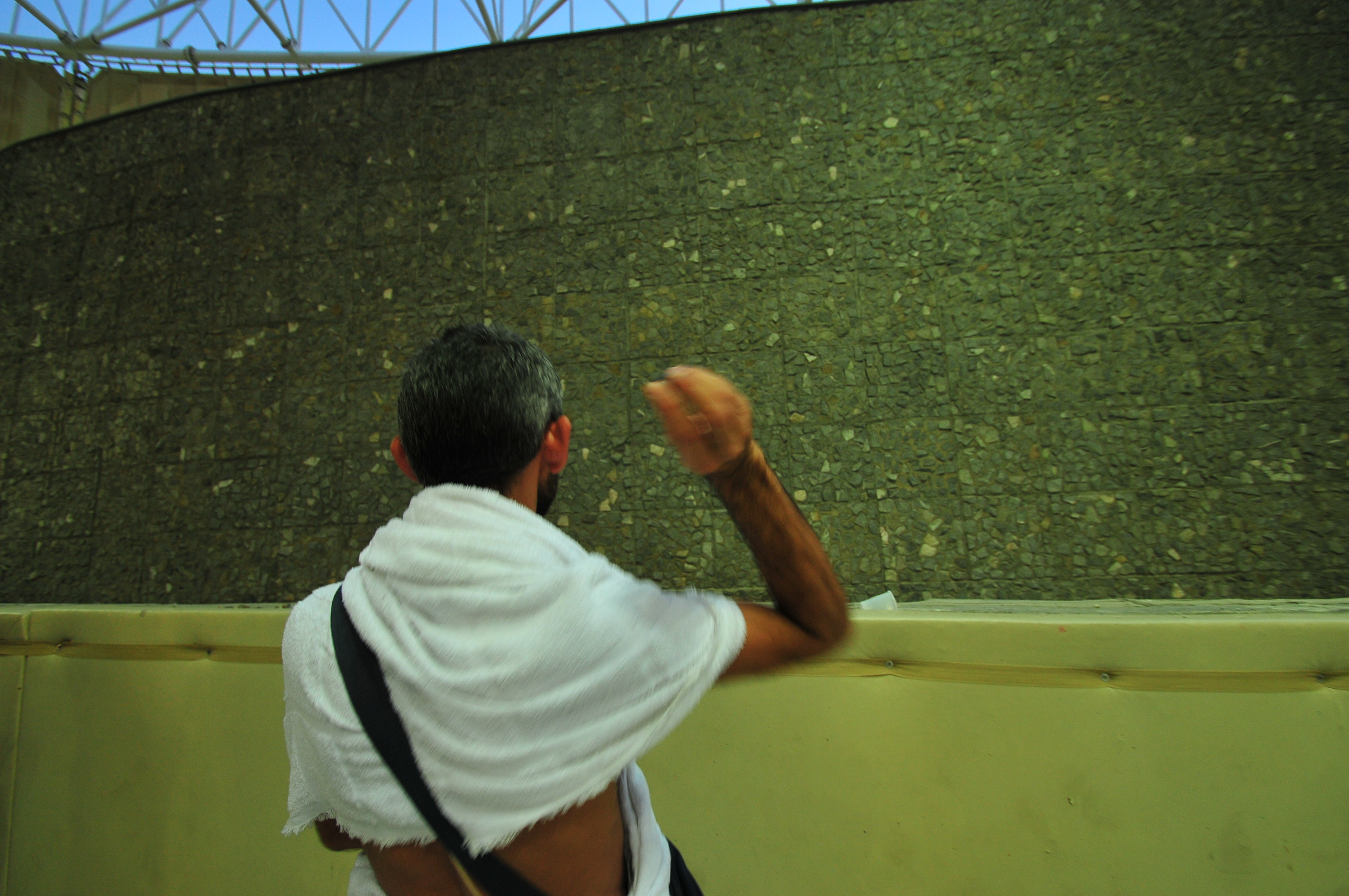 Stoning the Devil